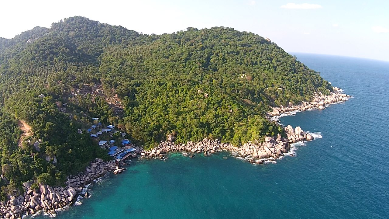 Hin Wong Bay